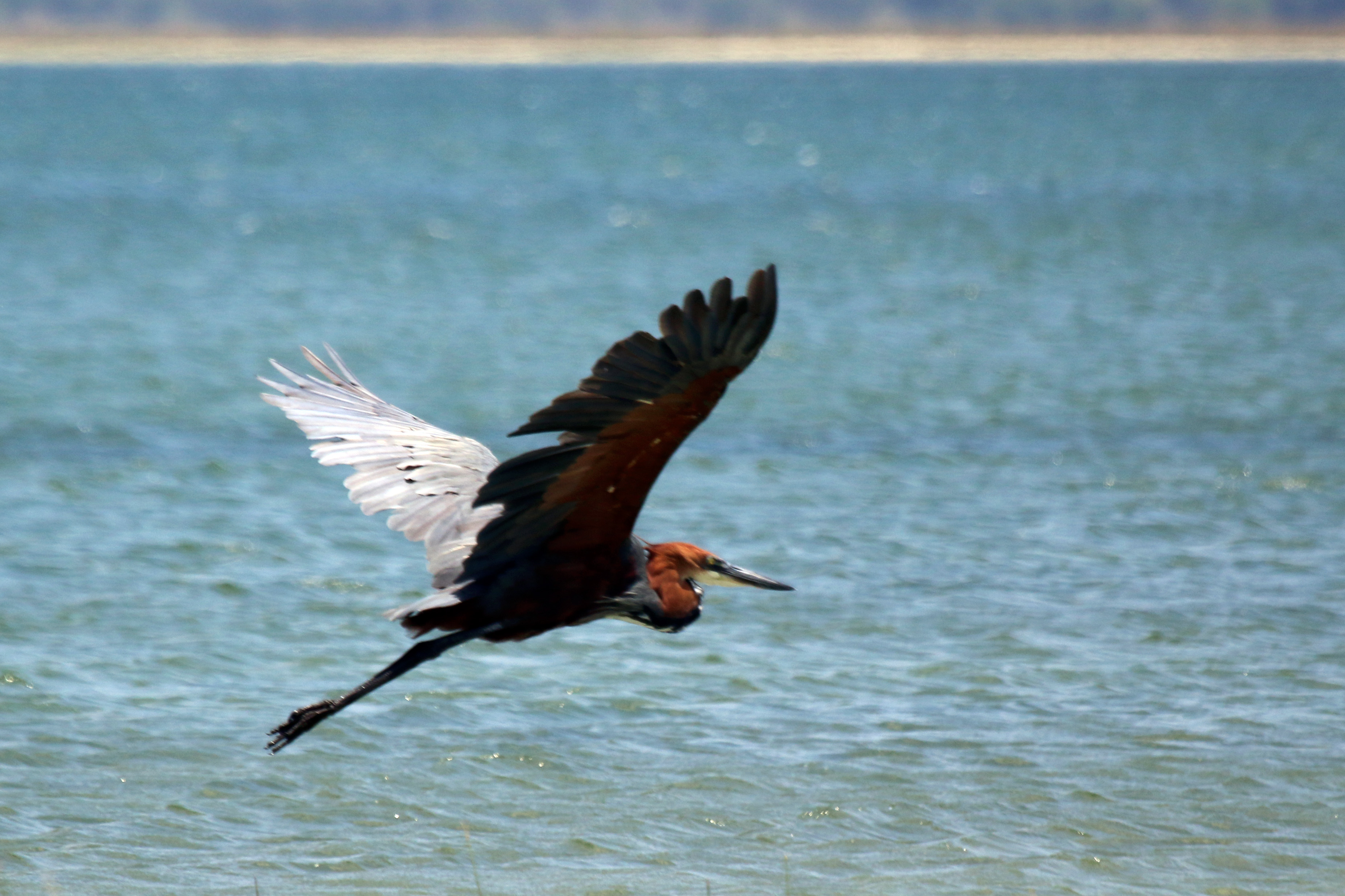 Goliath heron (Ardea goliath) in flight, iSimangaliso Wetland Park, KwaZulu Natal, South Africa